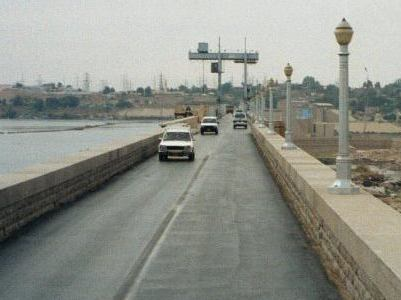 Driving across the Aswan Low Dam east to west.